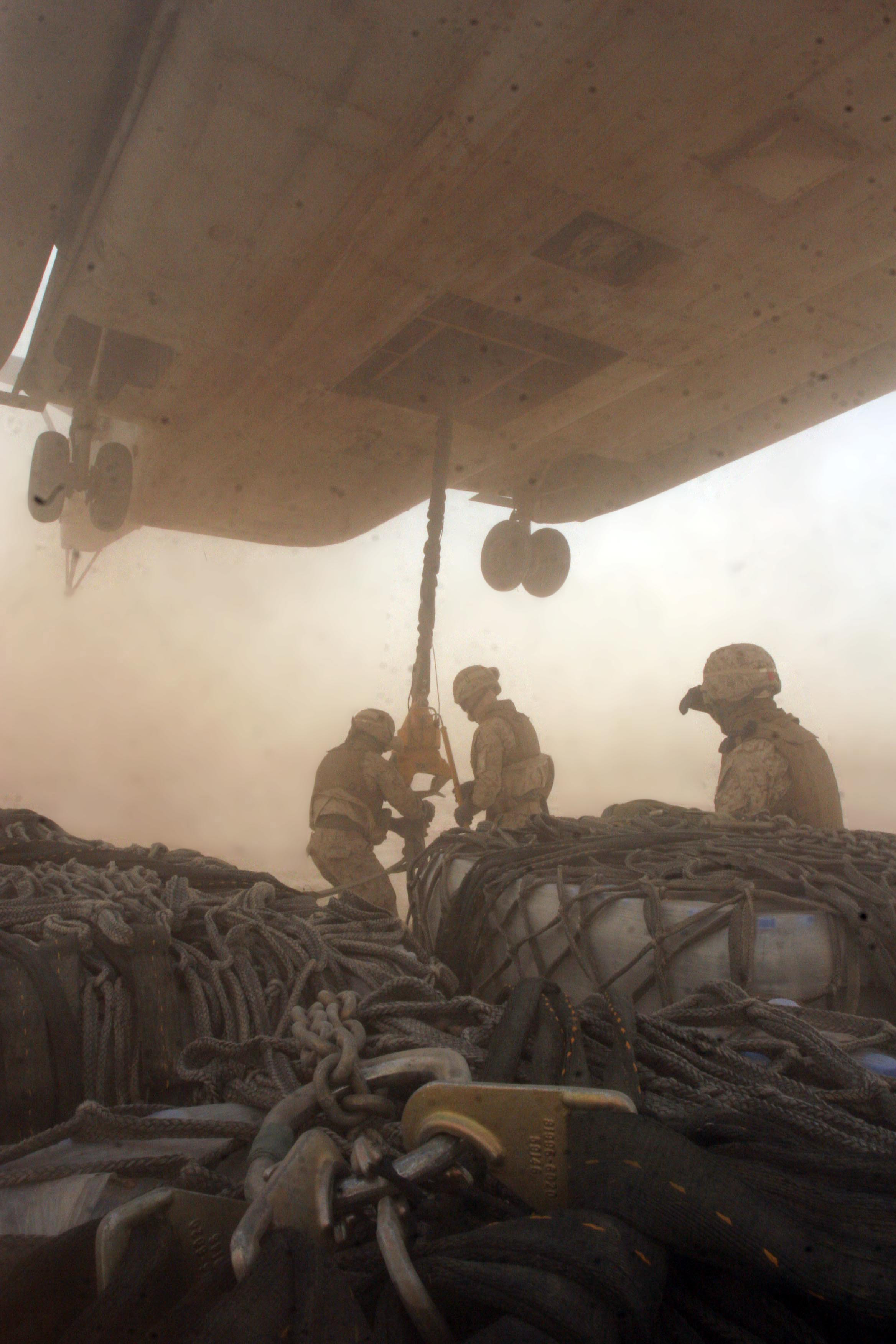 U.S. Marines work under a hovering CH-53E Super Stallion helicopter as they attach cargo nets of water and Meals, Ready to Eat for an external re-supply lift from Al Asad Air Base, Iraq, to Regimental Combat Team 2 at Camp Timber Wolf, Iraq. The Marines are assigned to Helicopter Support Team, Combat Logistics Battalion 2.